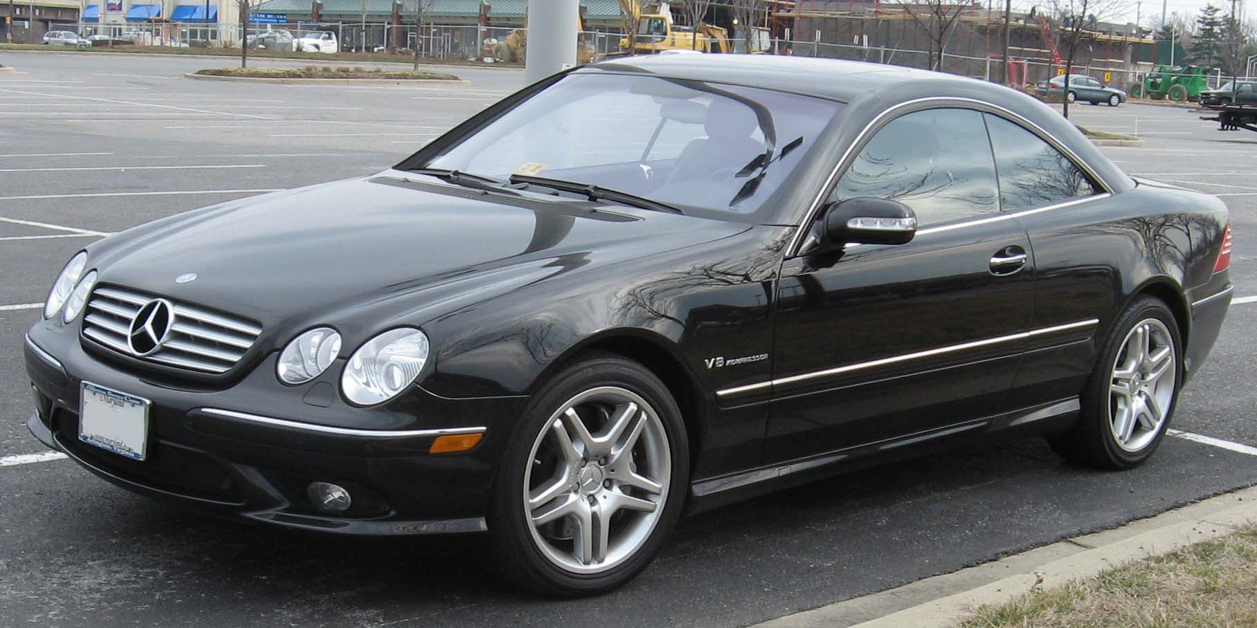 2003 Mercedes-Benz CL55 AMG Kompressor photographed in USA.